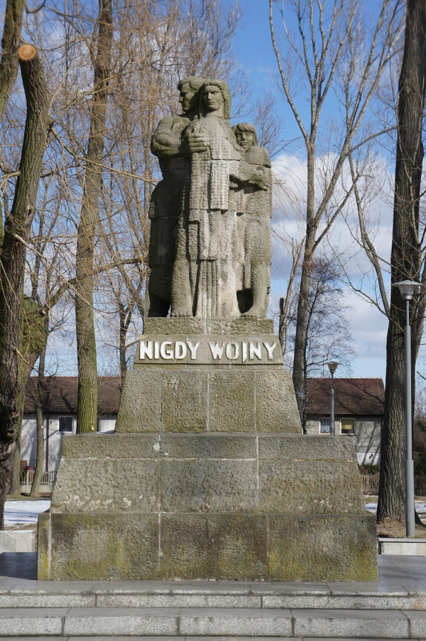 Monument Never war in Żabikowo (district of Luboń) designed by Józef Gosławski in 1956. It is located on the place of former German internment camp (1943-1945)